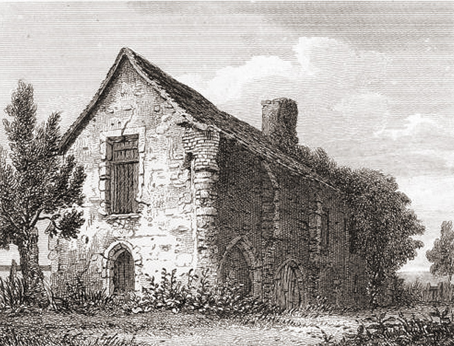 "Remains of an Ancient Palace Kings Langley Herts" Engraved by J. Greig from a Drawing by F. W. L. Stockdale for the Antiquarian Itinerary Storer described the building: "Part of the site is now occupied by a farm-house of no very prepossessing appearance, which exhibits the ancient bake-house and some other vestiges of the domestic offices of the palace."